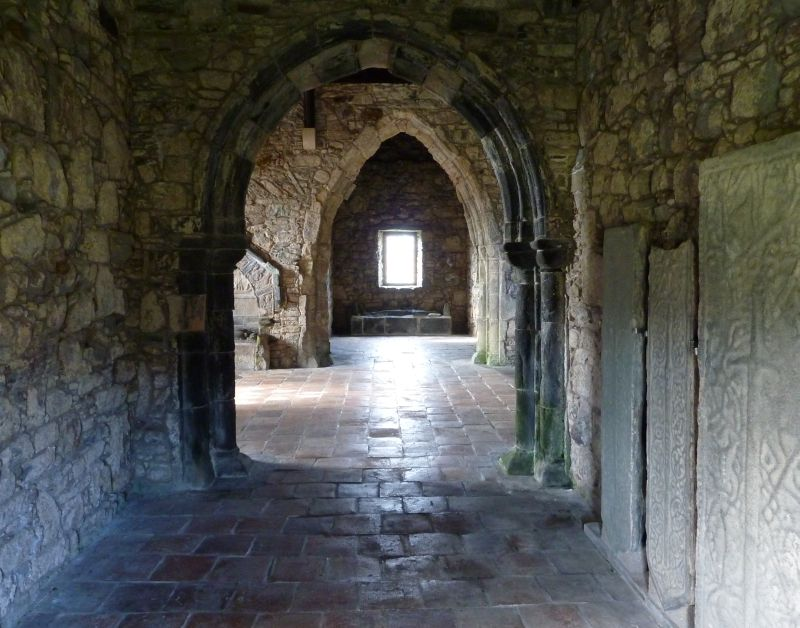 St Clement's Church, Rodel, Lewis and Harris, Scotland